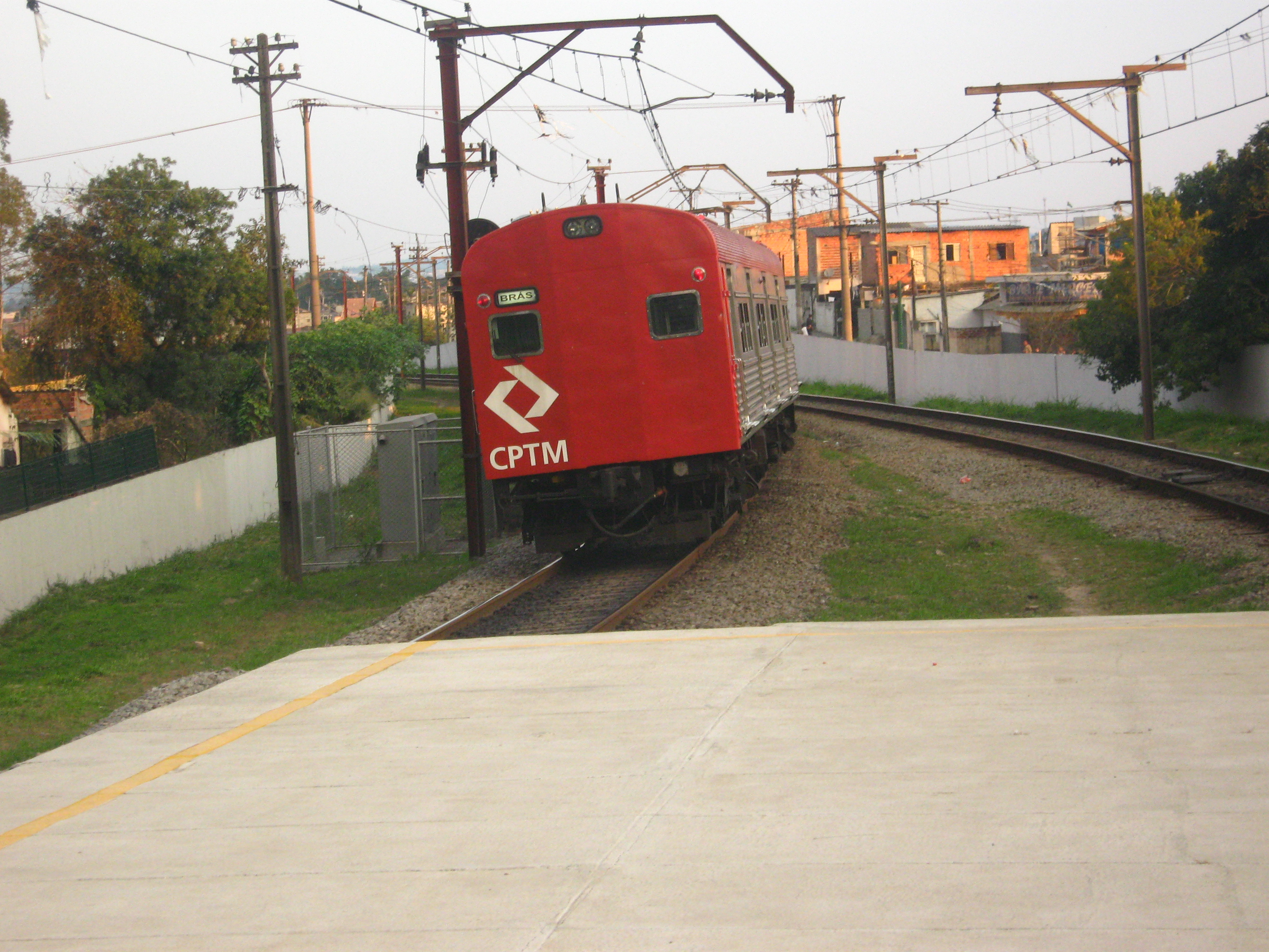 The EMU CPTM 1600 Series going to Calmon Viana Station.